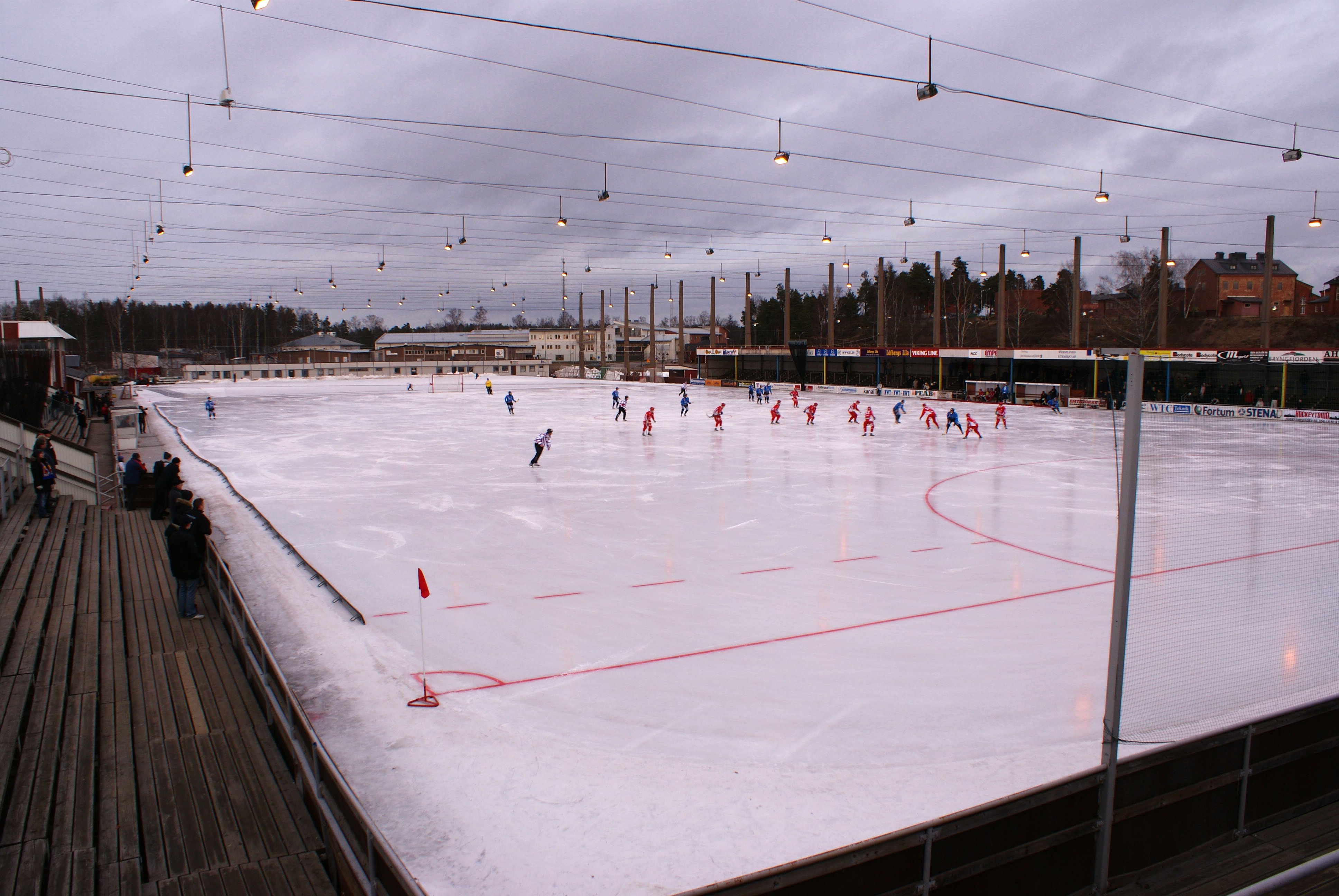 Tingvalla bandyarena in Karlstad, Sweden.